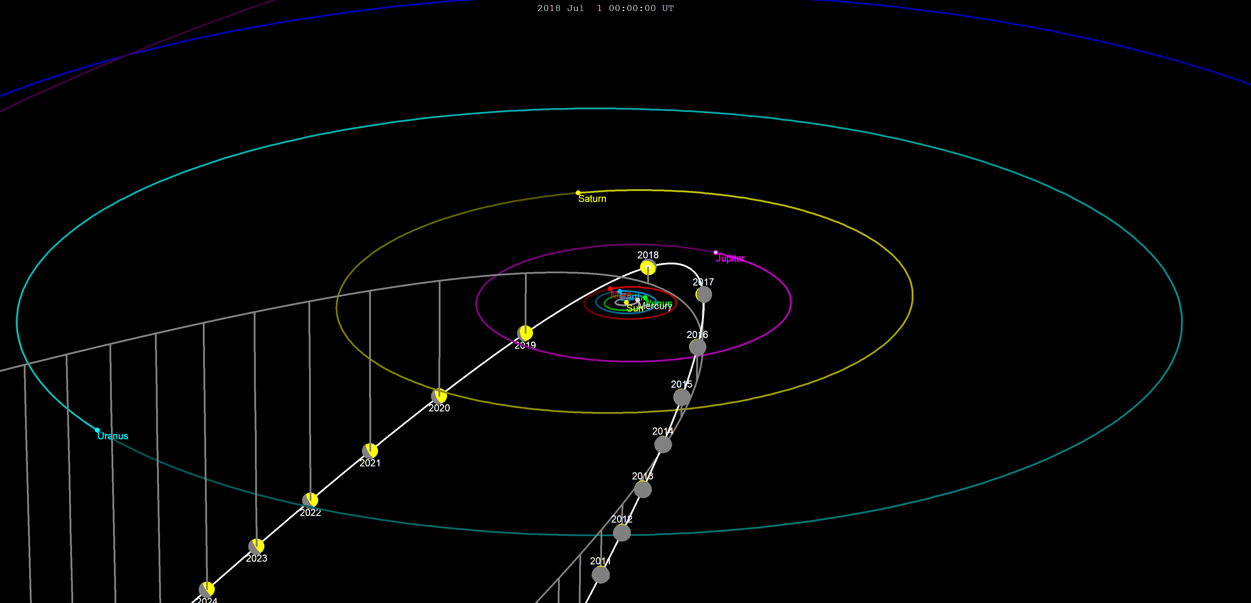 A/2018 C2 annual motion in solar system